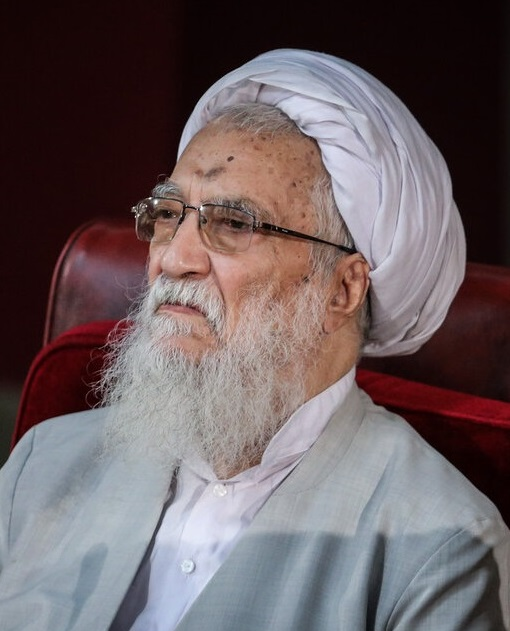 Ali Movahedi-Kermani